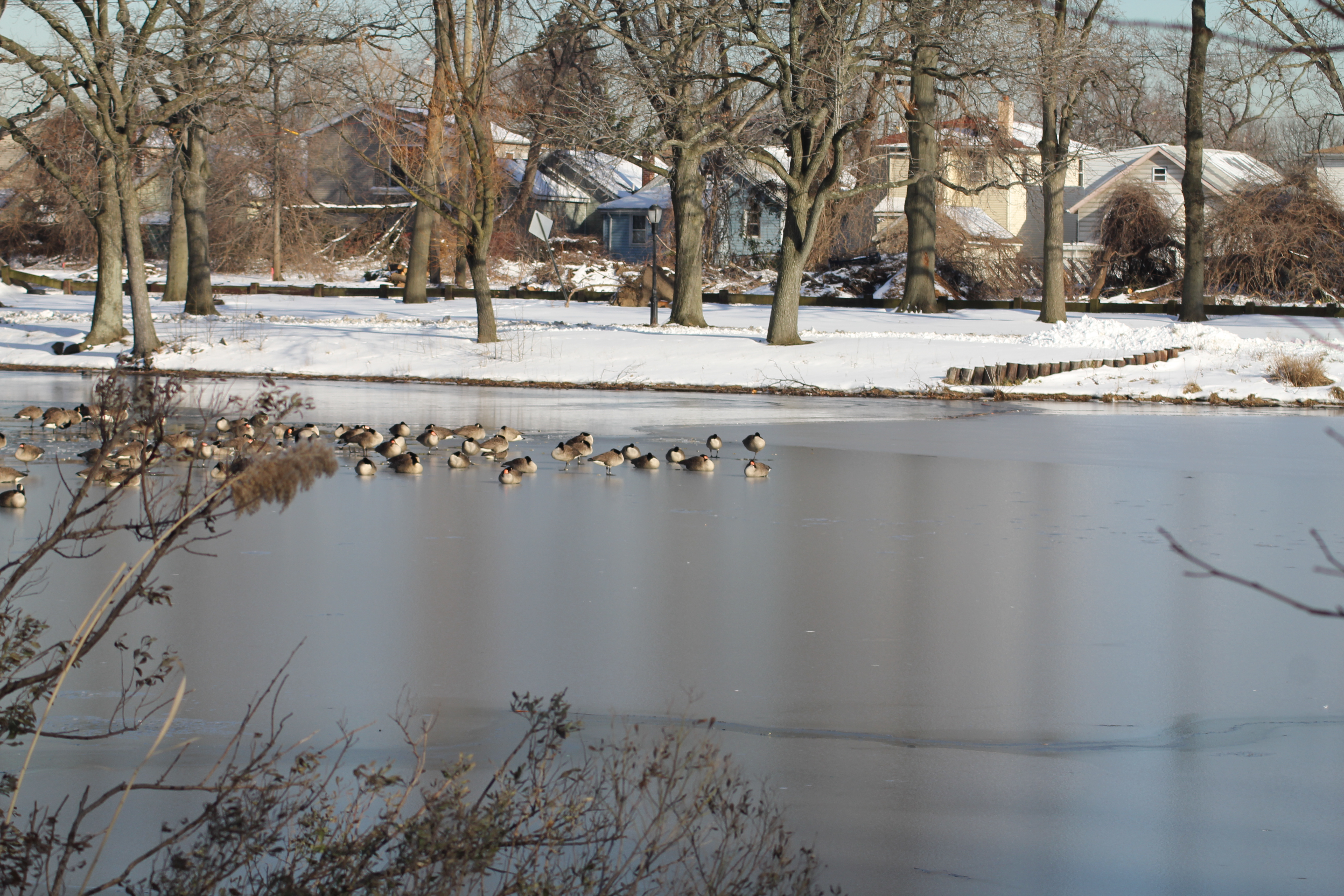 A part of Springfield Lake, located within Springfield Park in the Springfield Gardens neighborhood, borough of Queens, New York City.